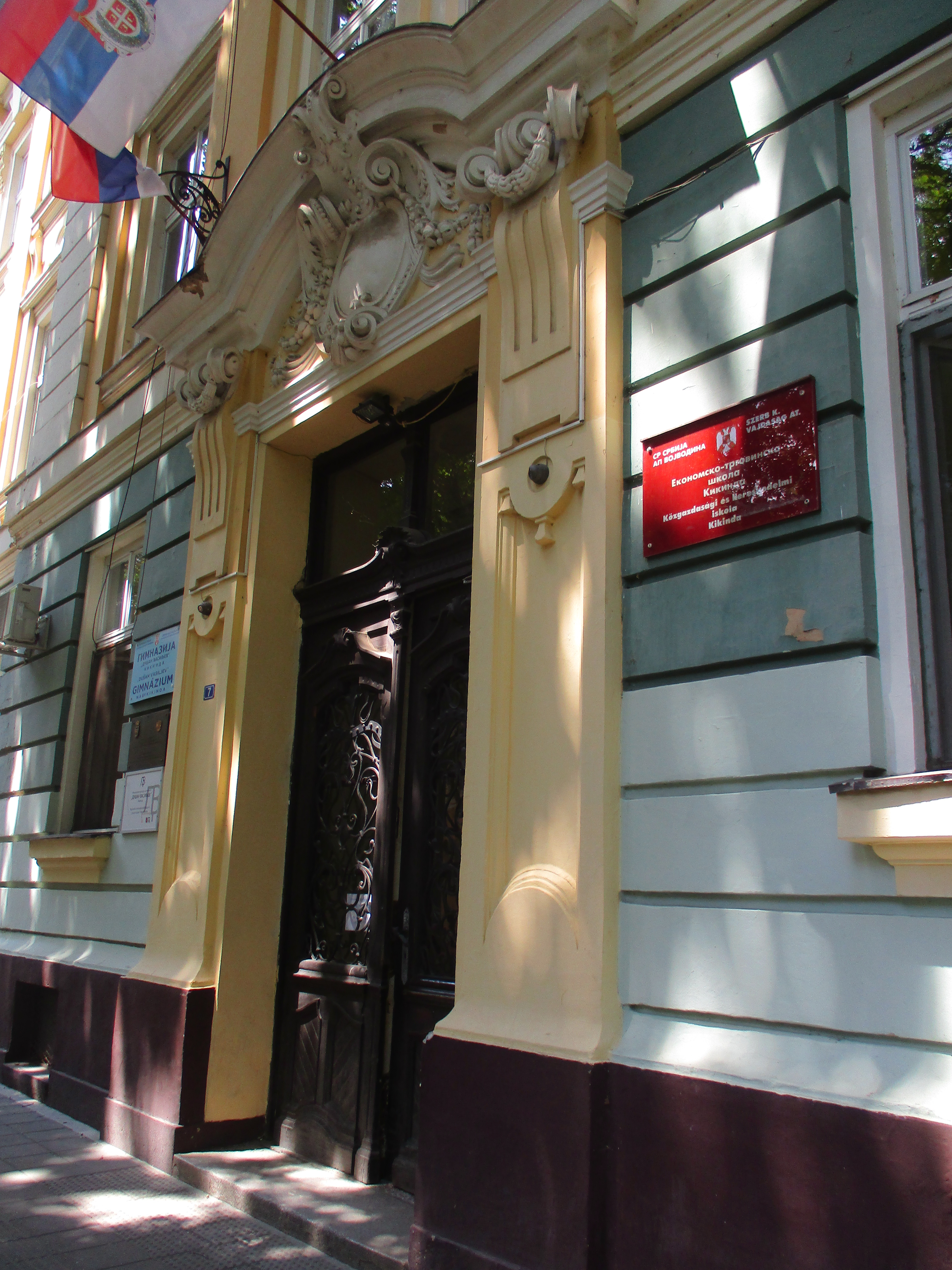 Main entrance to Kikinda's Grammar and Economic school. Srpski (latinica): Glavni ulaz u zgradu Gimnazije Dušan Vasiljev i Ekonomsko-trgovinsku školu u Kikindi.